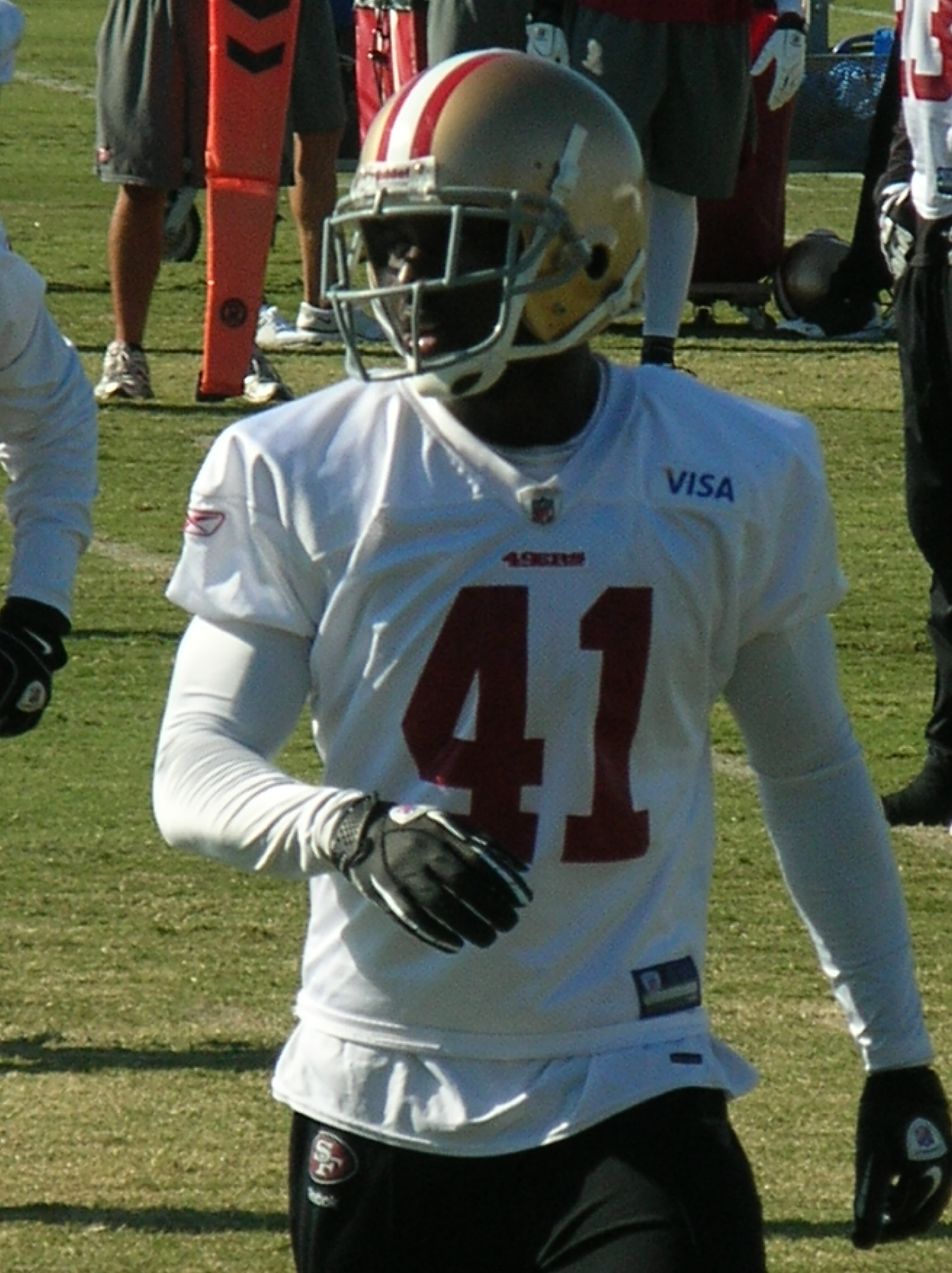 San Francisco 49ers cornerback Karl Paymah at training camp in Santa Clara, California.